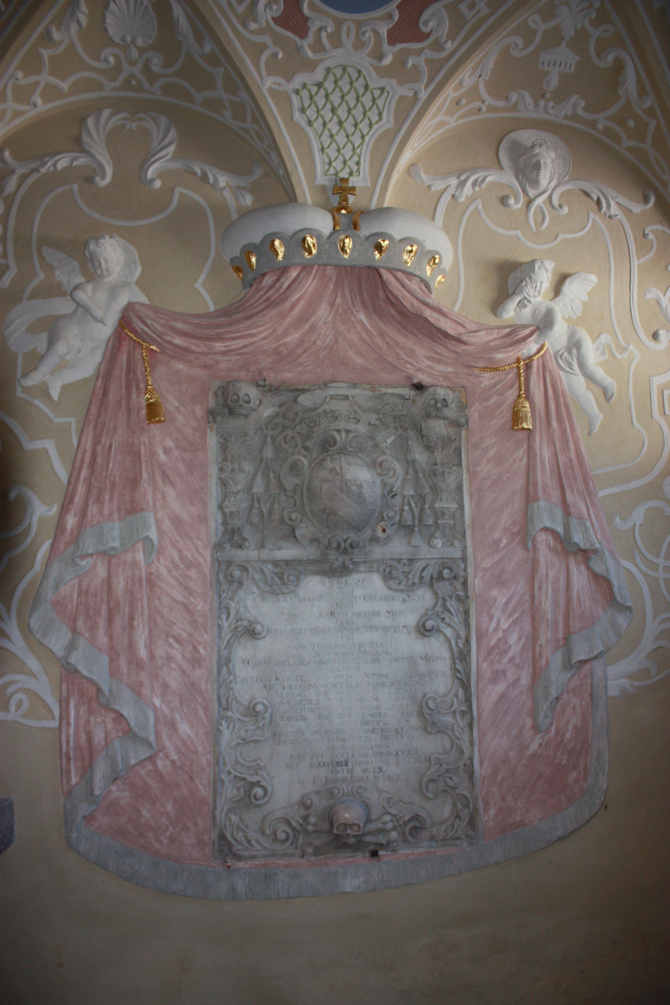 Parish church Saint Niklaus - epitaph of Jakob Maximilian von Thun und Hohenstein Locality:Straßburg Community:Straßburg